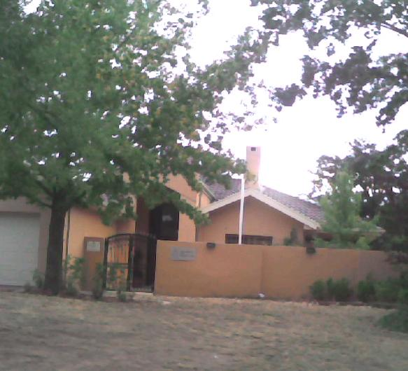 High Commission of Tonga in Canberra